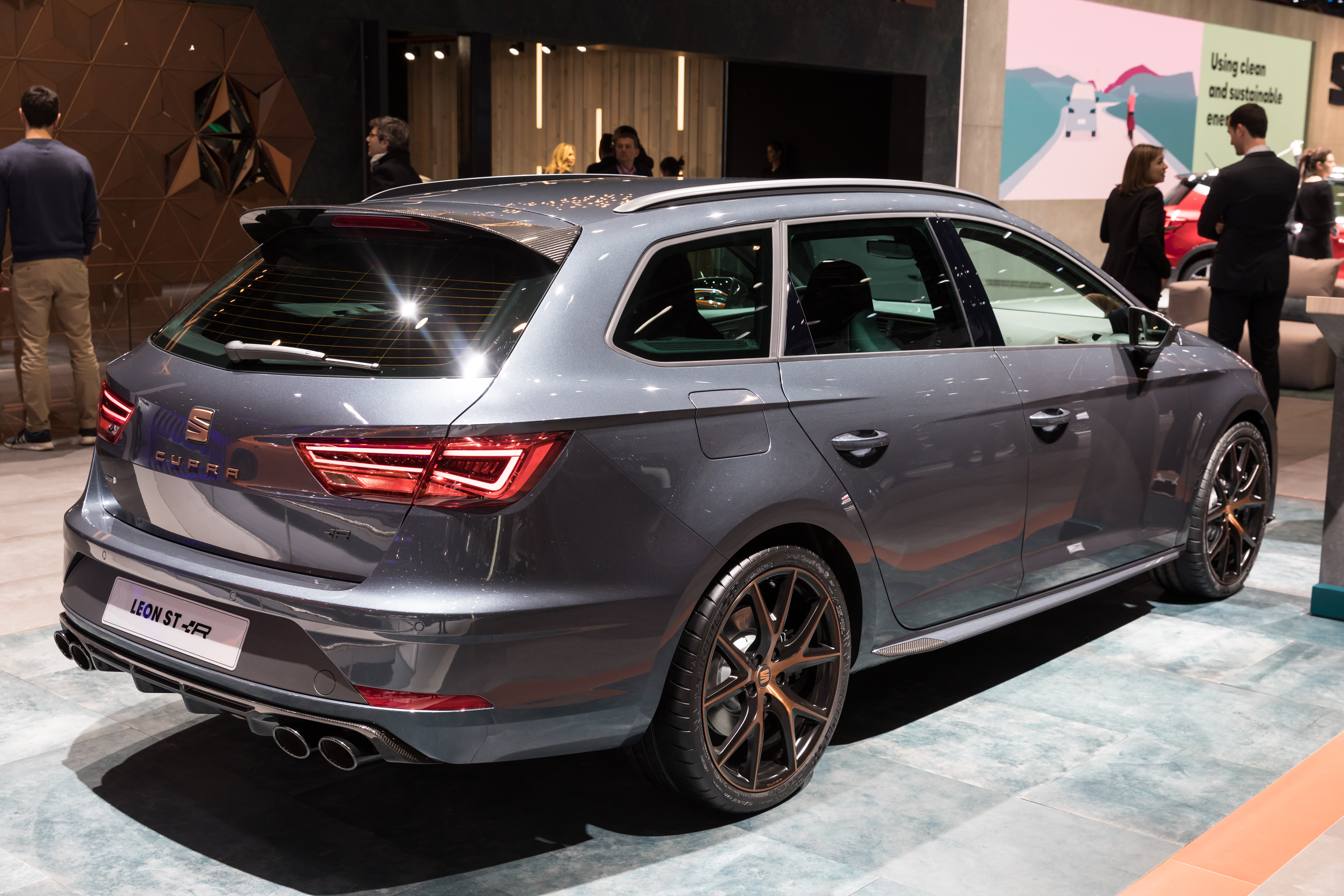 Geneva International Motor Show 2018